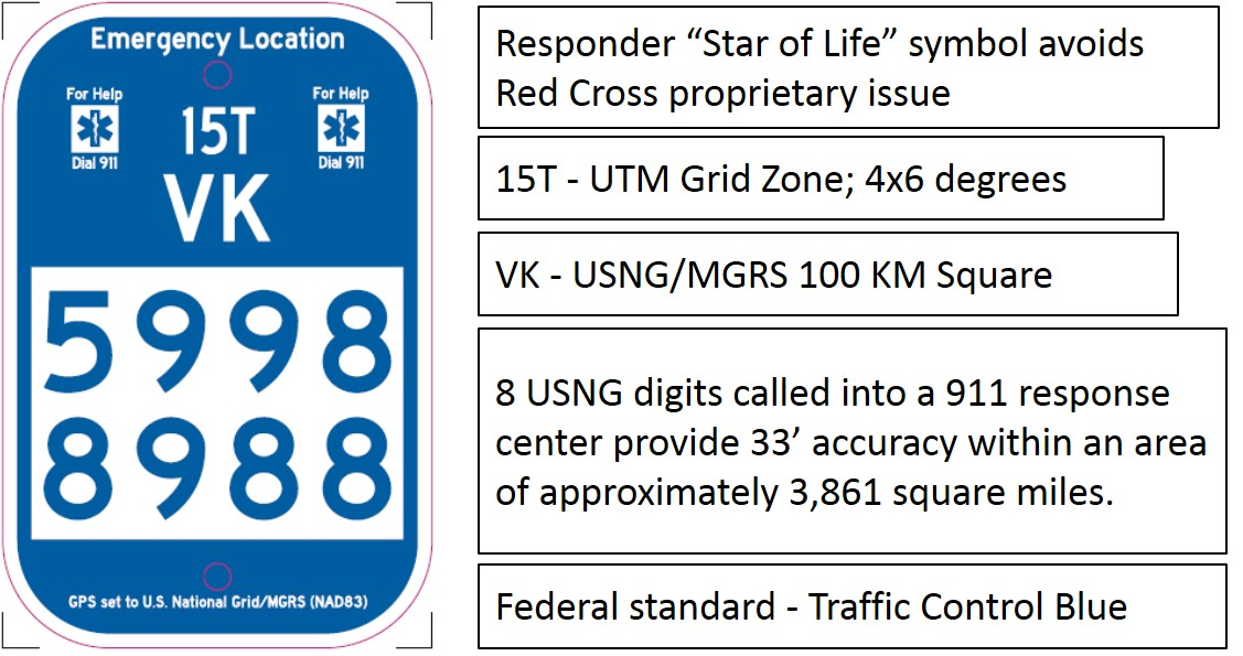 Emergency Location Marker design developed 2009-2012 through field research and vetting by multiple focus groups of trail users, responders, and geospatial experts. Display of the federal standard United States National Grid location was determined to be superior to all other approaches in its efficiency and universal applicability.